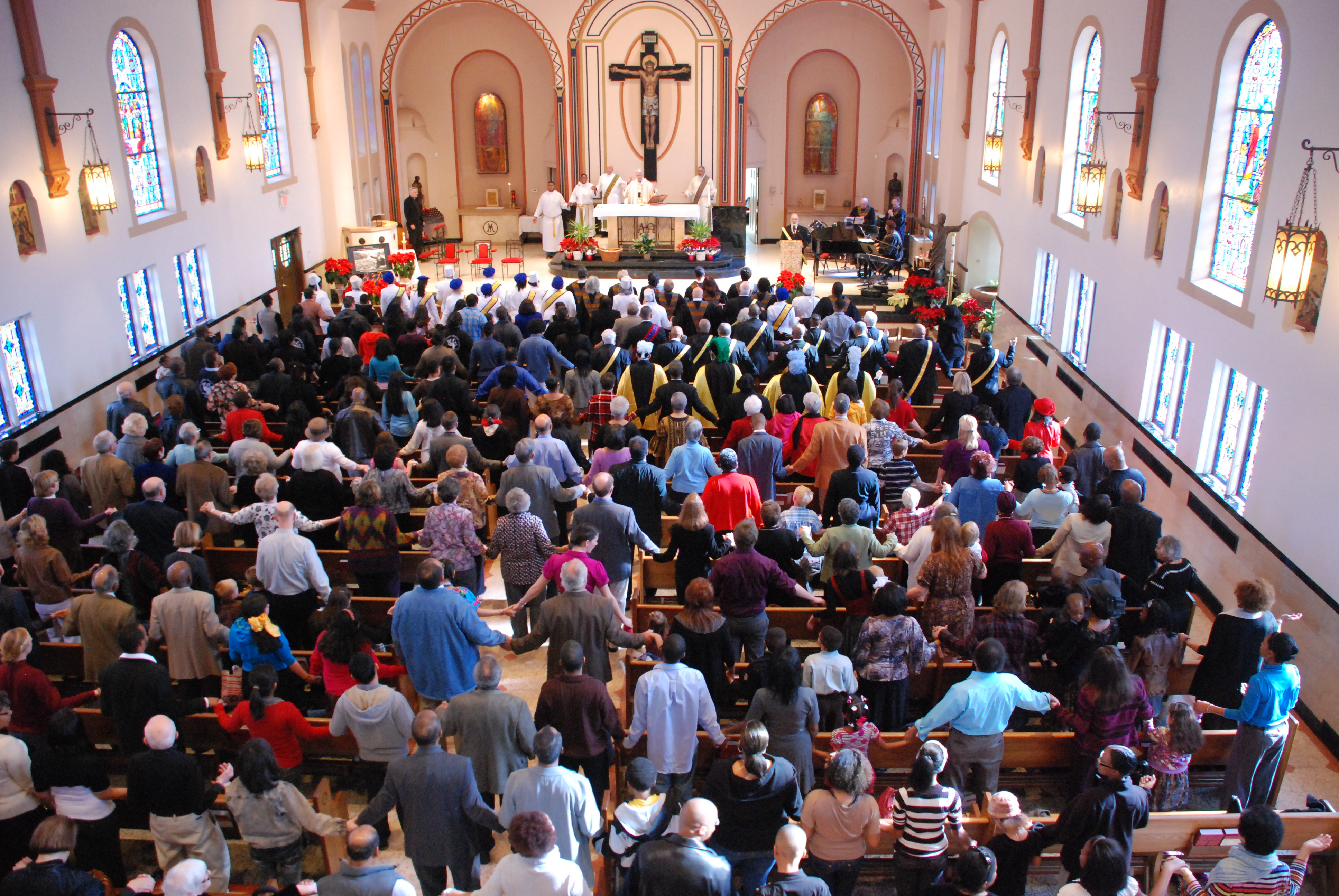 The Bishop celebrates Mass at Corpus Christi Catholic Church in Oklahoma City